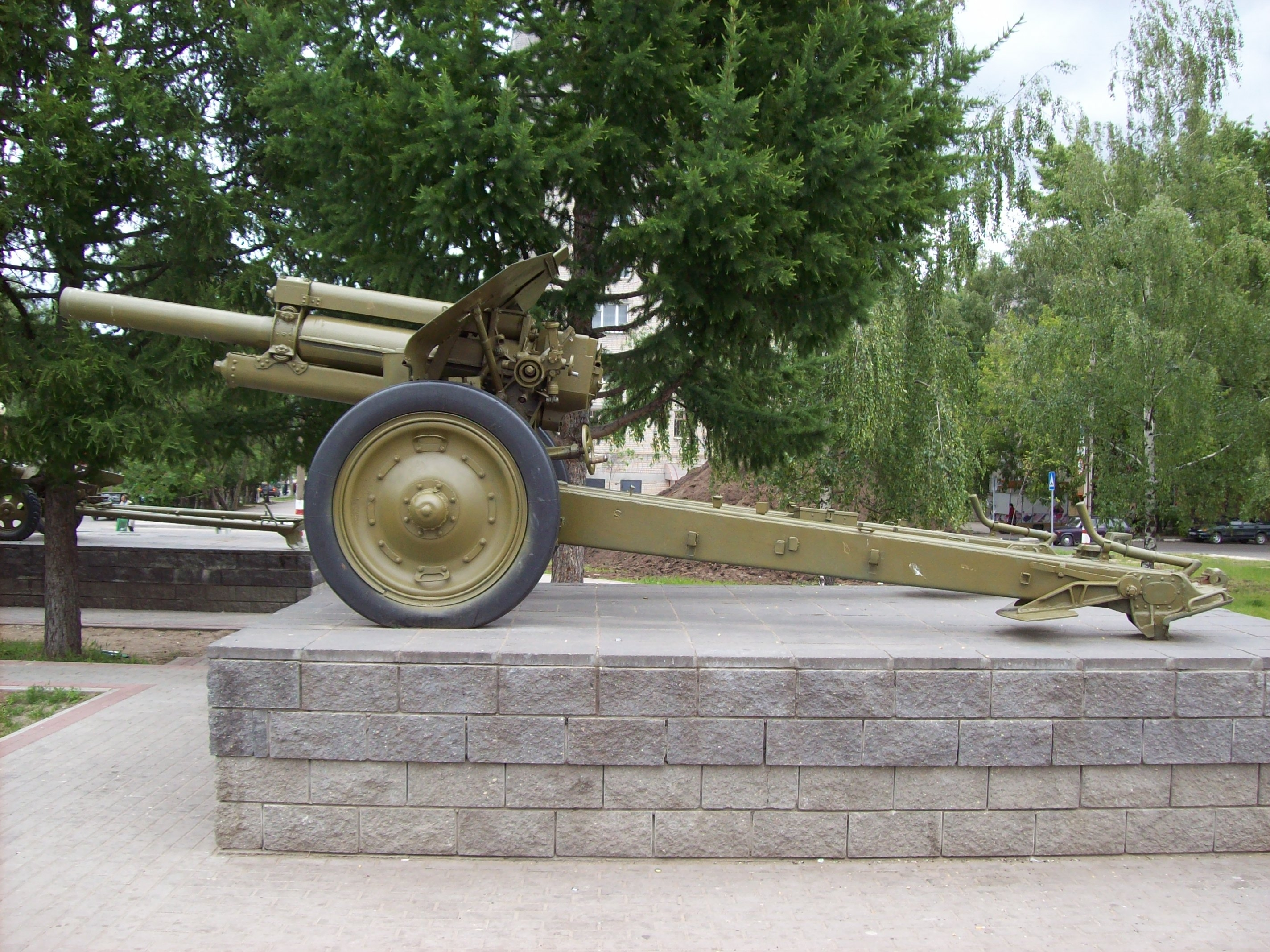 M-30 122 mm howitzer